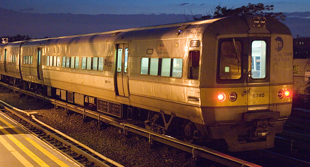 From Created by Eugene Wei ( Photo was originally licensed under CC-by-nc-sa-2.0 but Mr. Wei kindly changed the license to CC-by-sa-2.0 so the photo could be uploaded to Wikipedia.